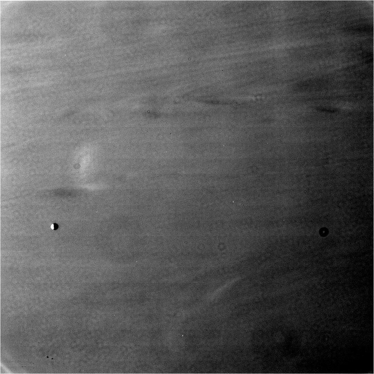 NASA's Cassini spacecraft captured a picture of the tiny, 4-kilometer-wide (3-mile-wide) moon Pallene, in front of the planet Saturn. Saturn is more than 120,000 kilometers (75,000 miles) wide at its equator. This image, which has not been validated or calibrated.